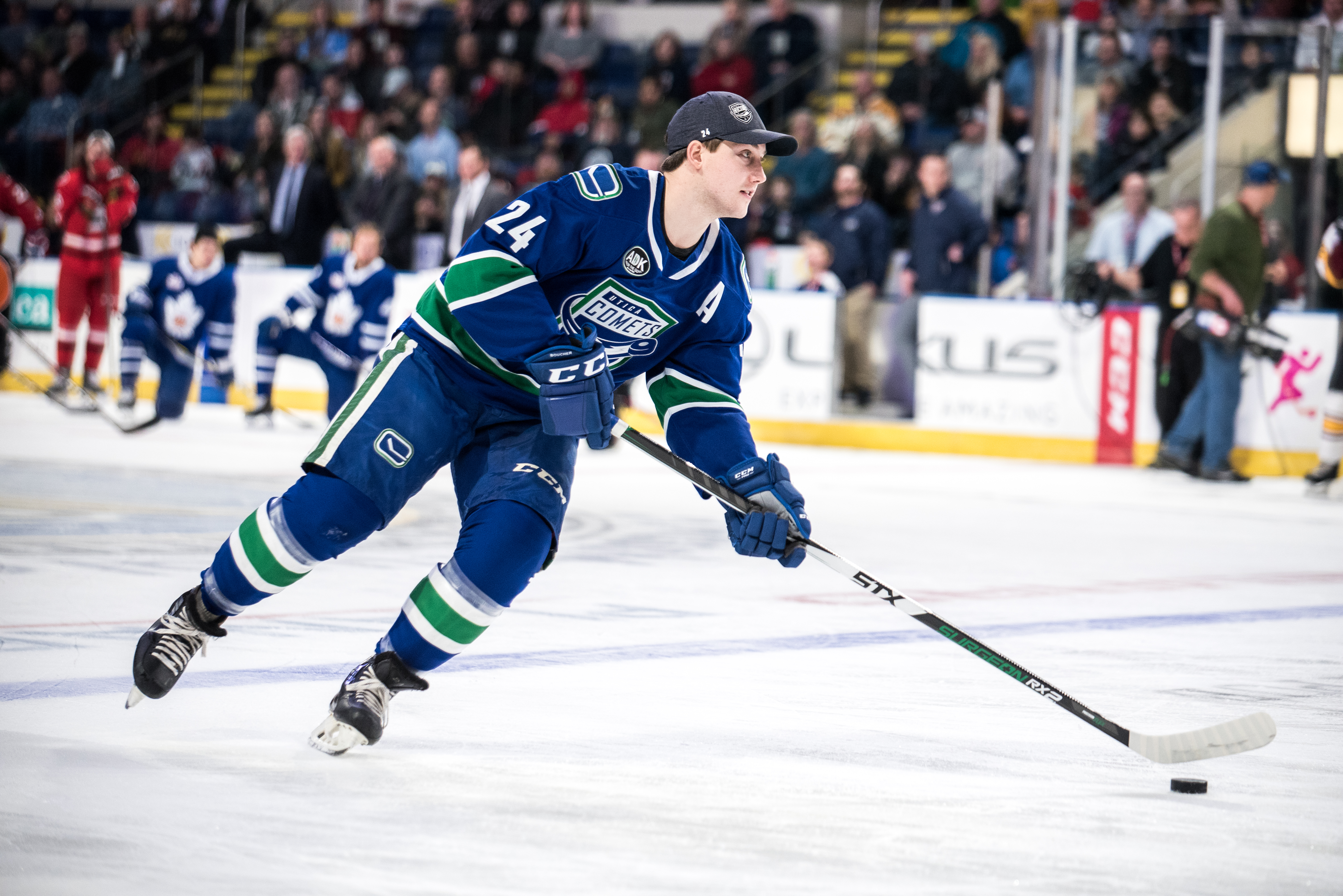 Photo by: China Wong